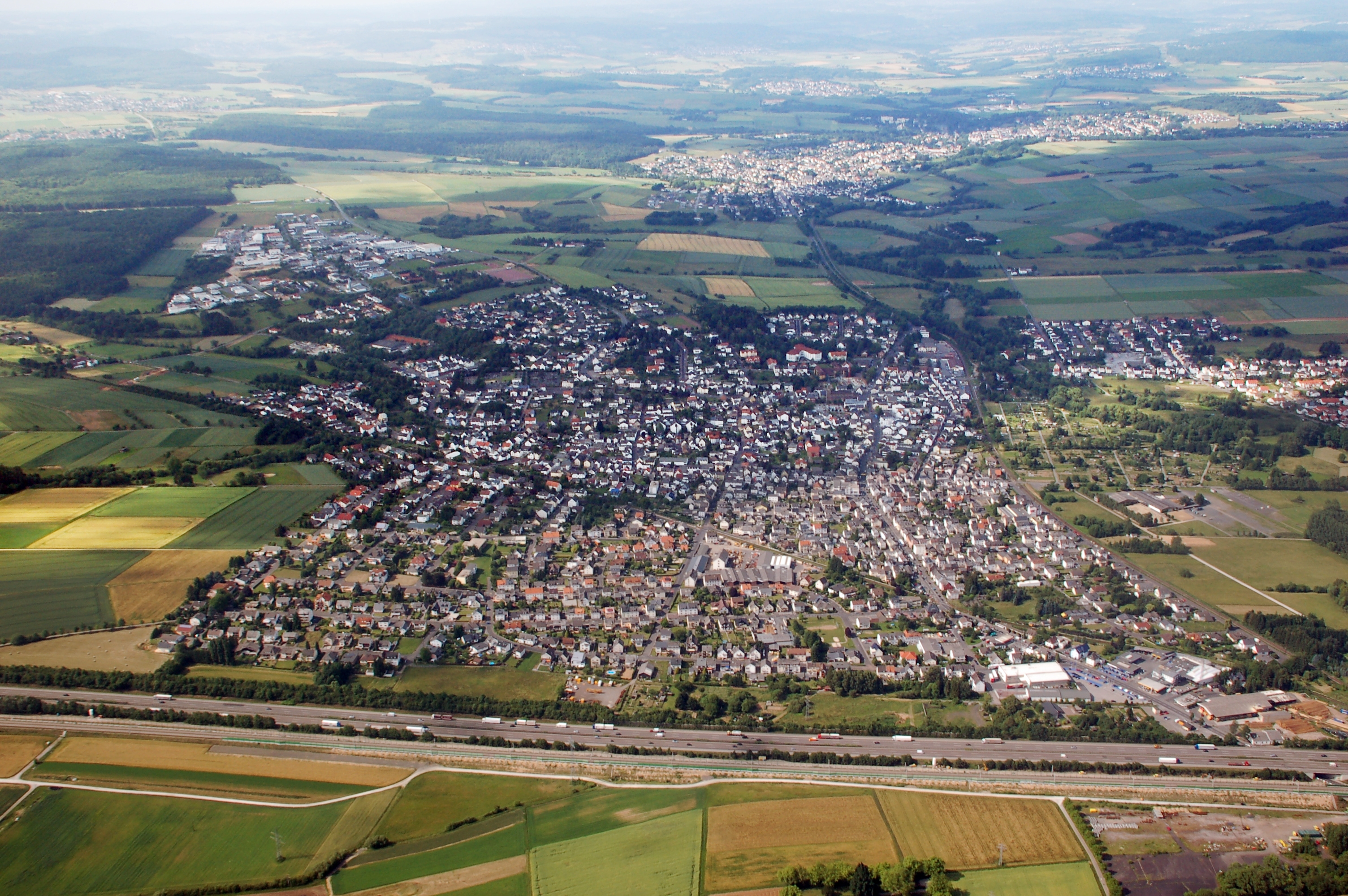 Aerial photograph of Elz, Hesse, Germany